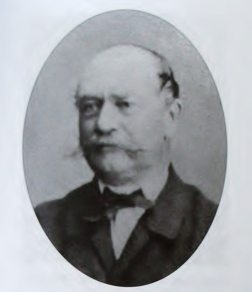 Michal Josef Manner (Bohdalice - Czech Republic)